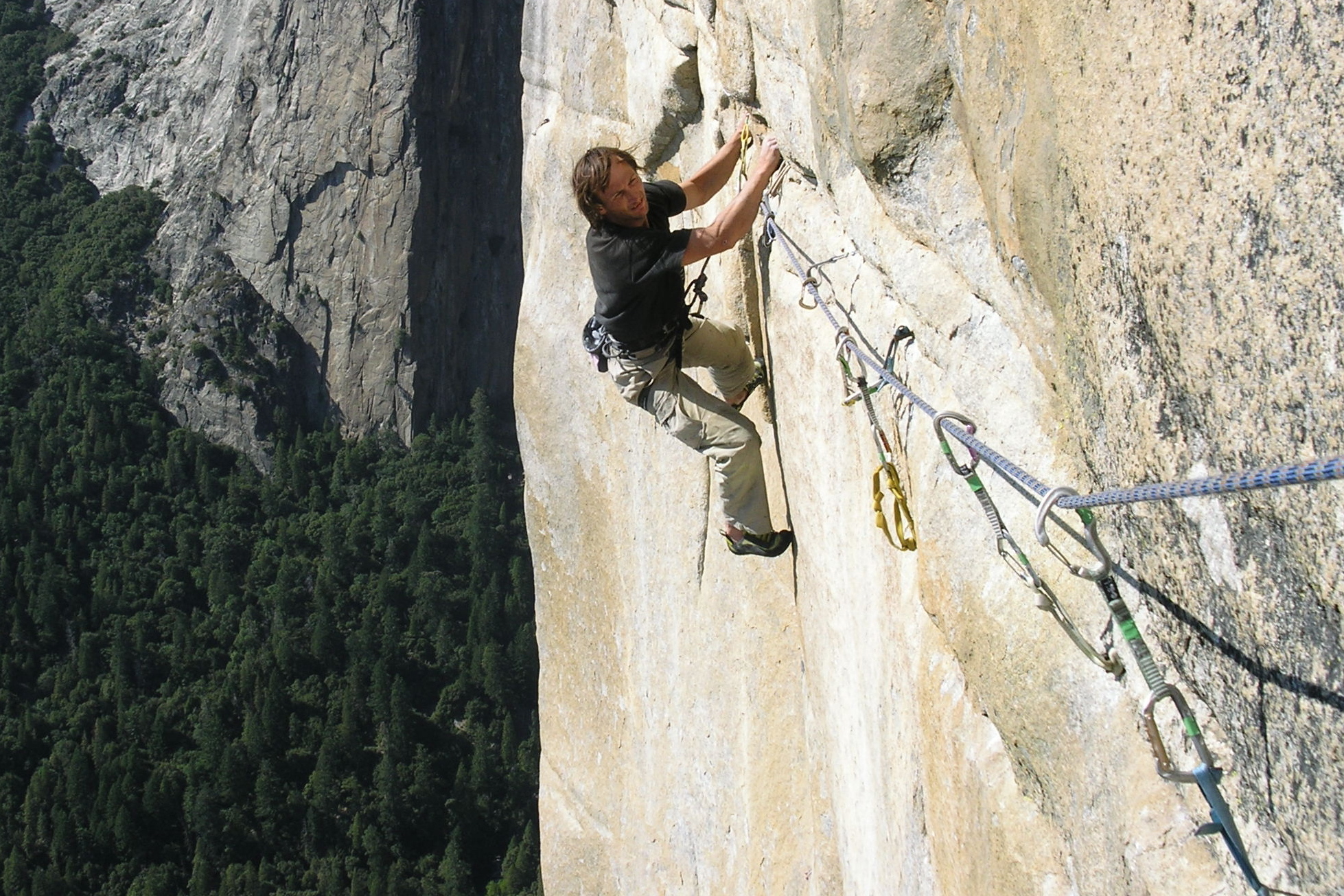 Peter Stocker in Yosemite